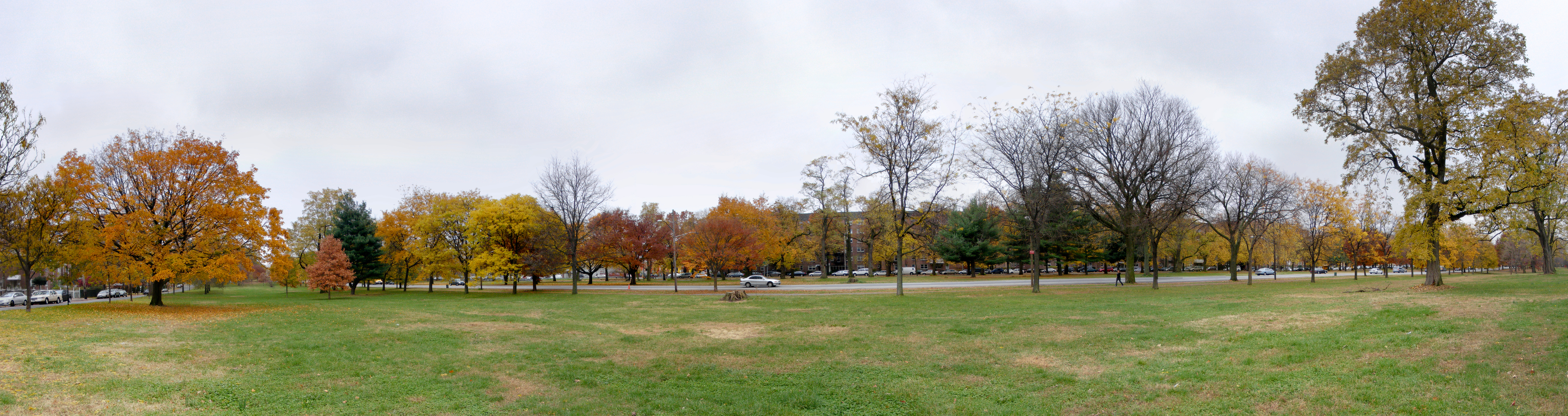 Panoramic shot of Pelham Parkway